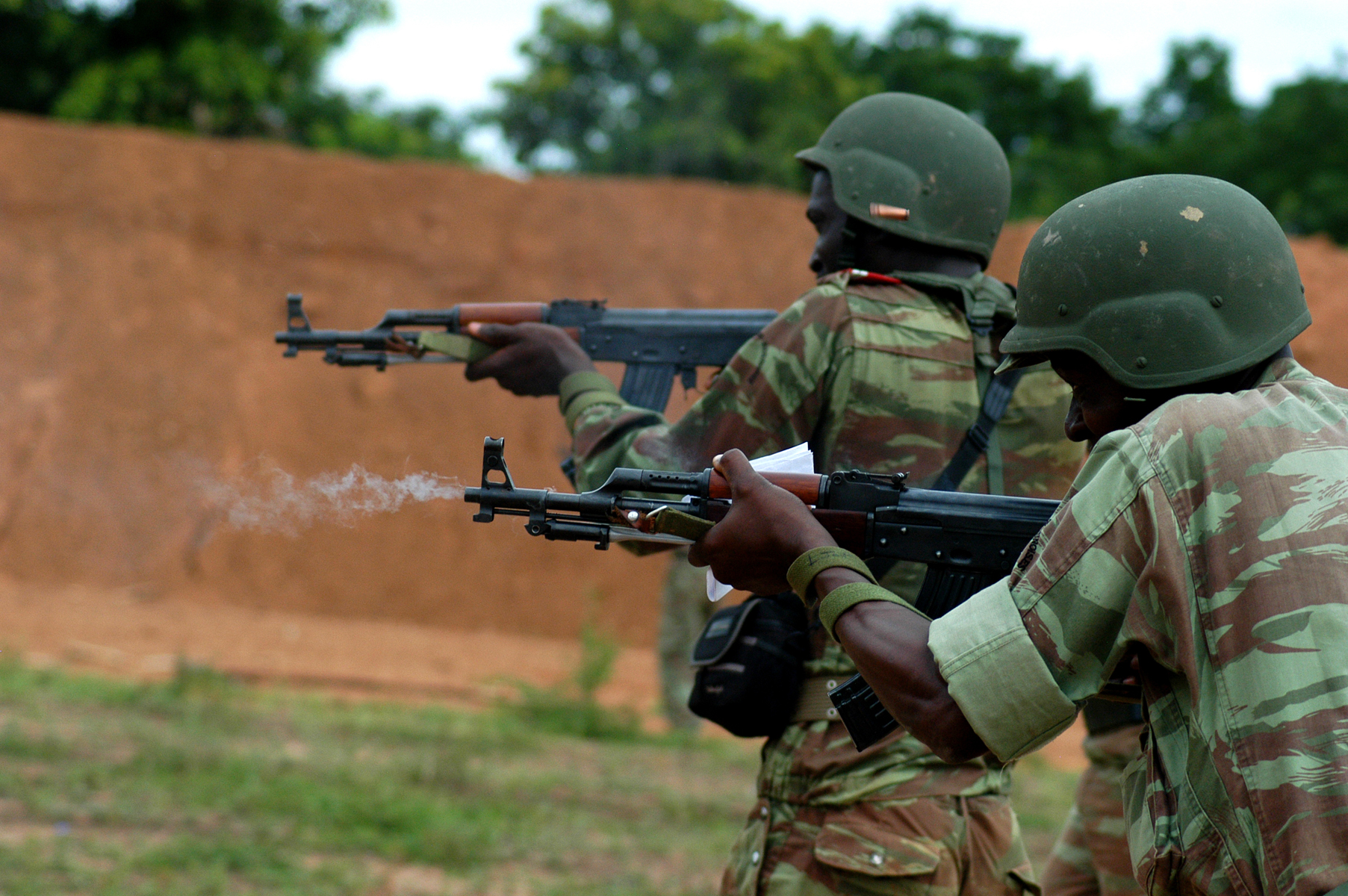 Beninese soldiers fire on the move as part of a joint U.S.-Benin live fire exercise in preparation for SHARED ACCORD 2009's final field training event.